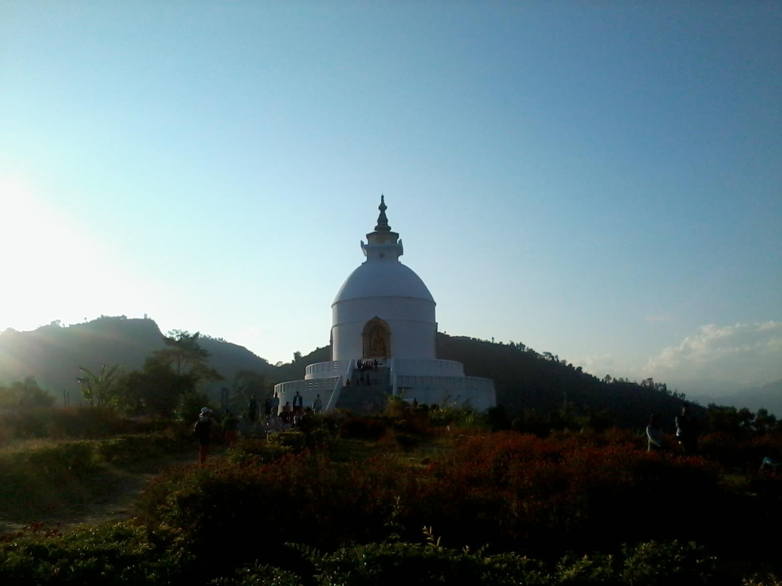 world pagoda peace temple